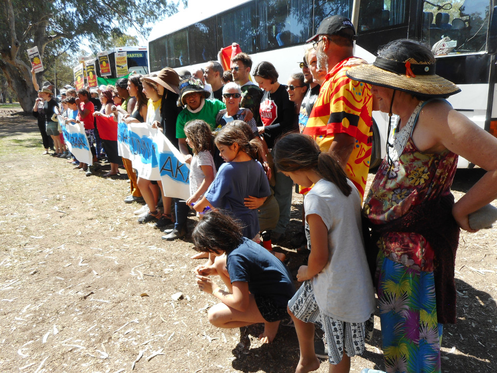 Tour Group, Wilcannia Campground